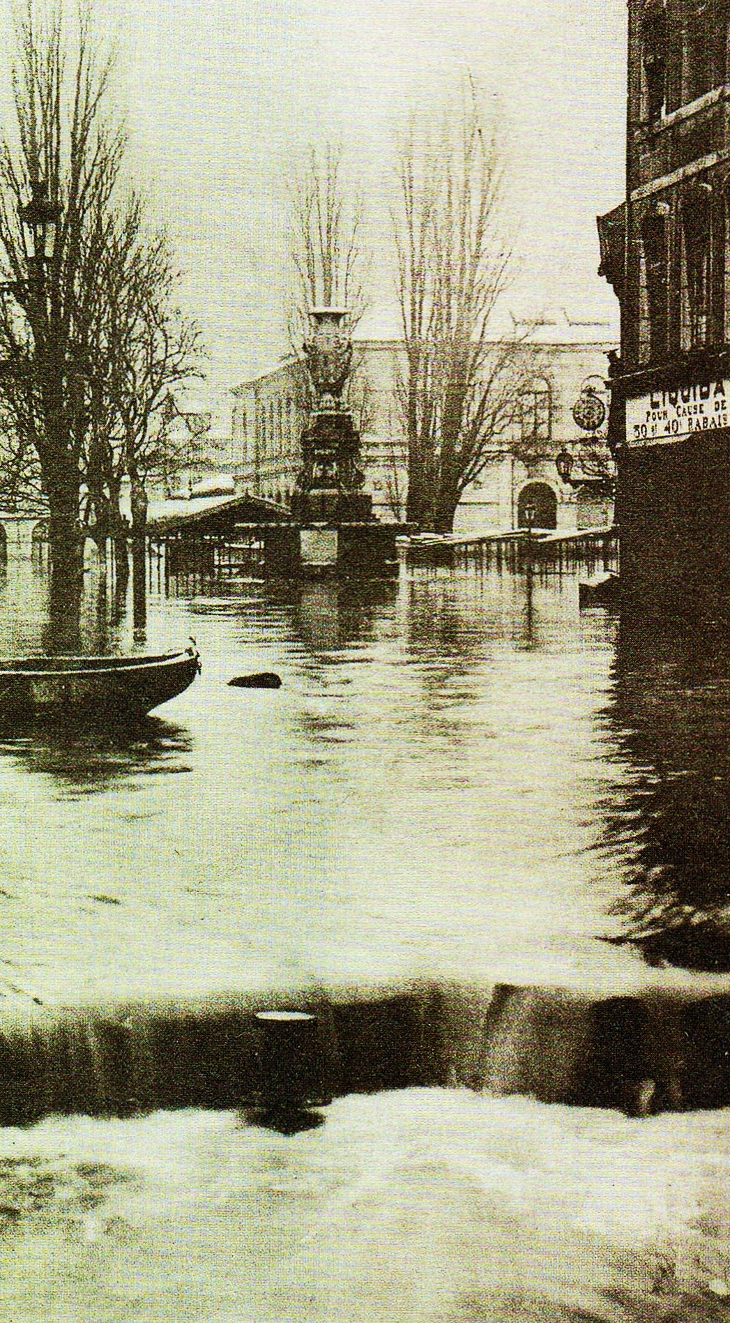 Flood of Doubs river in 1910, in Besançon